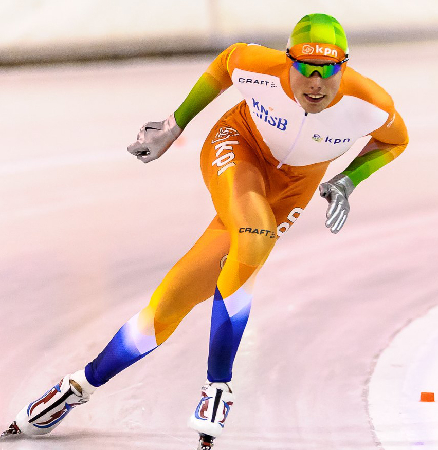 Patrick Roest at the Eindhoven Trofee 7th December 2013